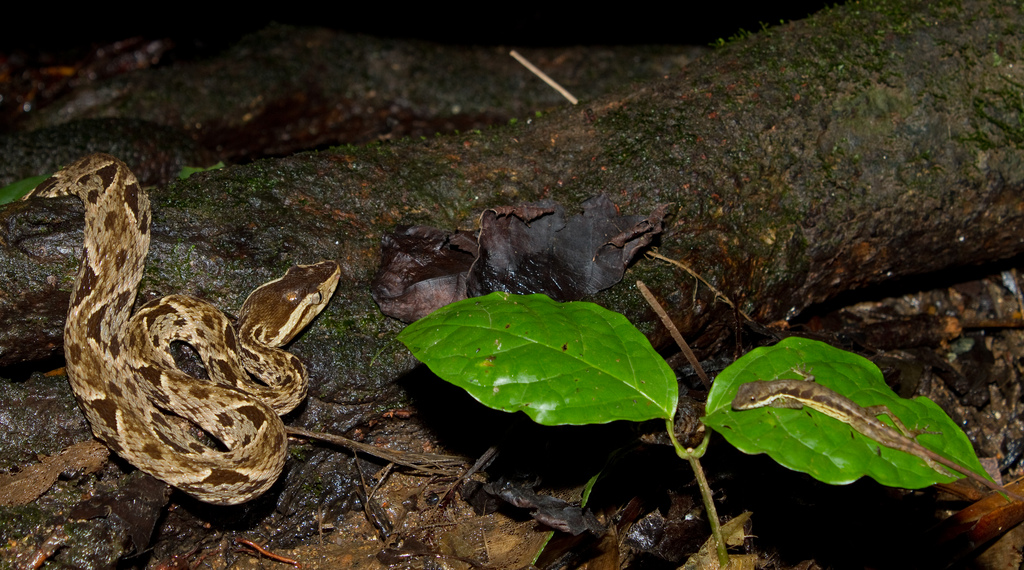 Bothrops asper with Annole (Panama)